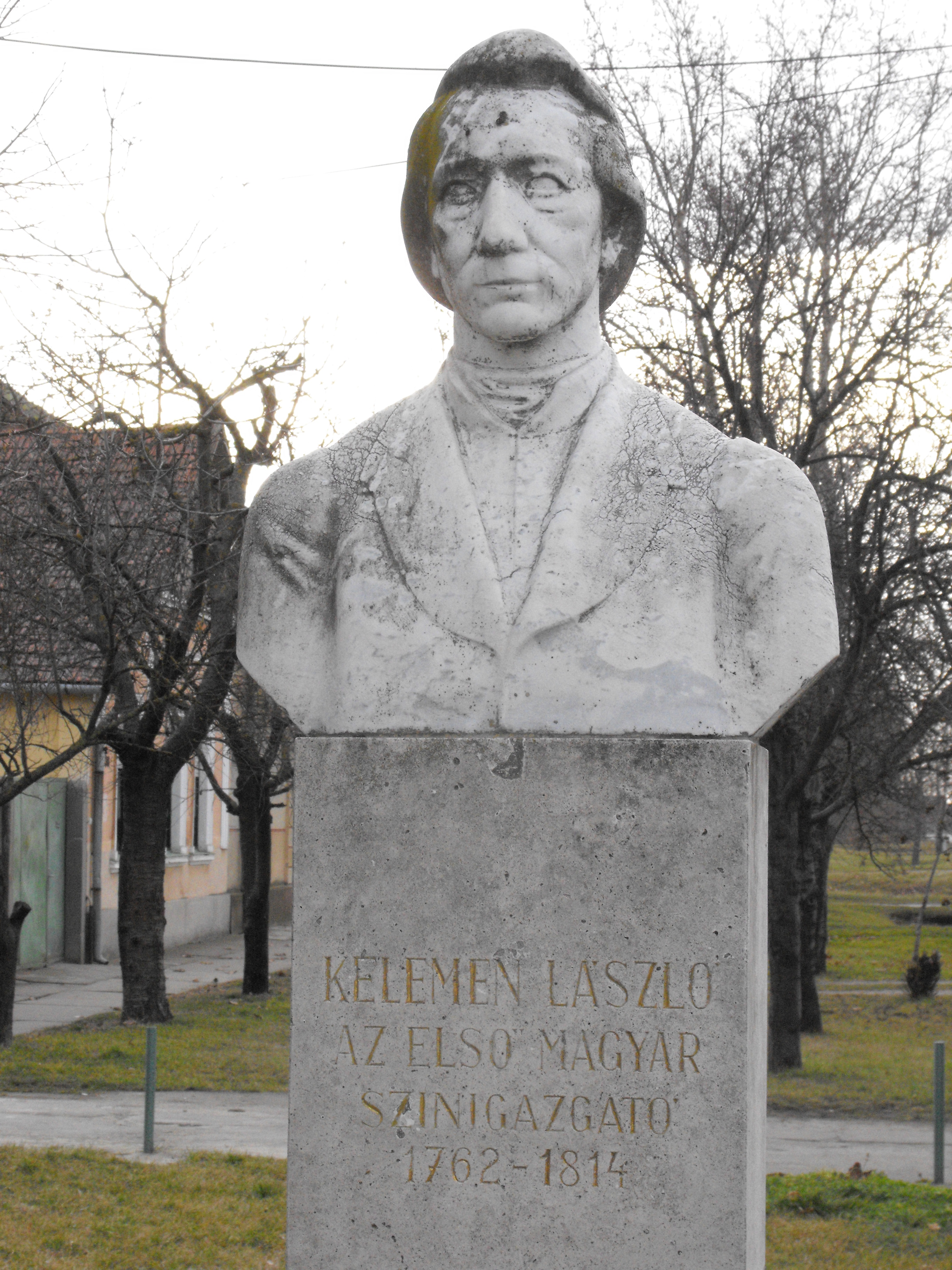 Statue of László Kelemen, Hungarian playwright and theatre director in Csanádpalota, Hungary.